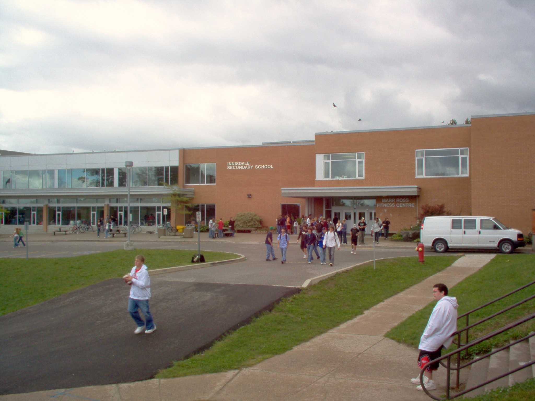 A photo of Innisdale Secondary School in Barrie, Ontario. Taken at lunch with students milling around.